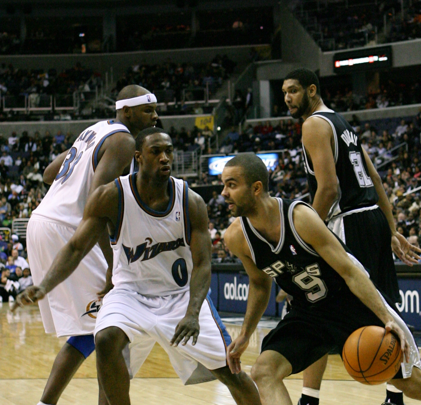 Tony Parker, San Antonio Spurs, 2007–08